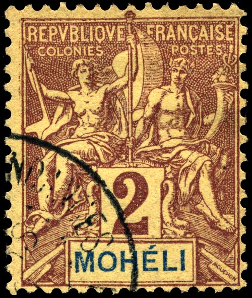 Moheli 2c stamp of 1906